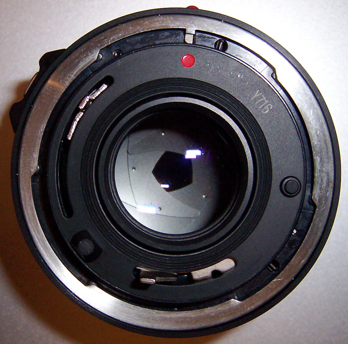 Canon FD 50 mm f/1.8 lens rear